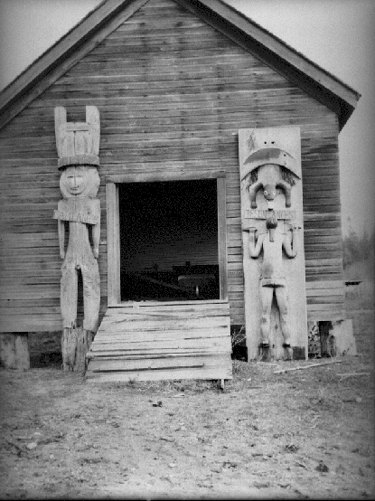 Musqueam; two poles standing against a new house (1915). Credits British Columbia Archives Visual Records Catalogue Email: access@ CALL NUMBER: AA-00235 Catalogue Number: PN00788 Other Cat. Number: E/666 XV/2 Subject: COAST SALISH Title: Musqueam; two poles standing against a new house; see PN00361 for further information. Newcombe E. collection - E/666 XV/27. Photographer/Artist: Newcombe Date: Dec 1915 Photo is taken from BC Archives website and is open to fair use and has no copyright.